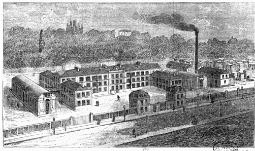 Manufacture des Orgues Alexandre, Ivry sur Seine, Vue perspective générale